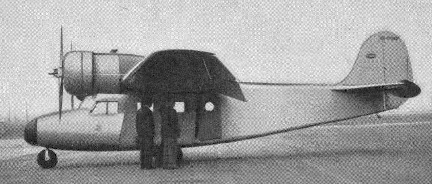 Timm T-840 photo from L'Aerophile April 1938